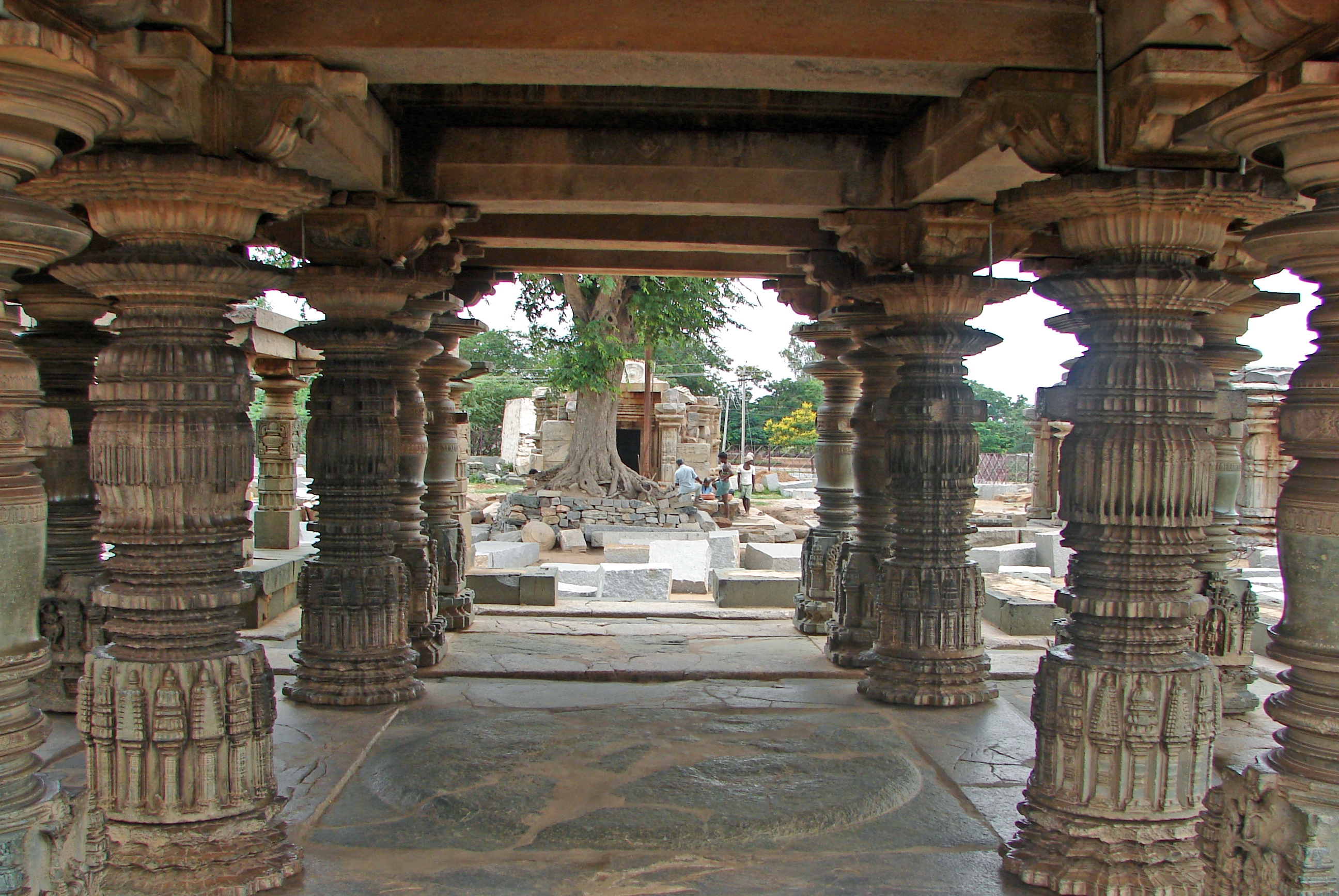 Mahadeva temple in Itagi, Koppal district, Karnataka state, India